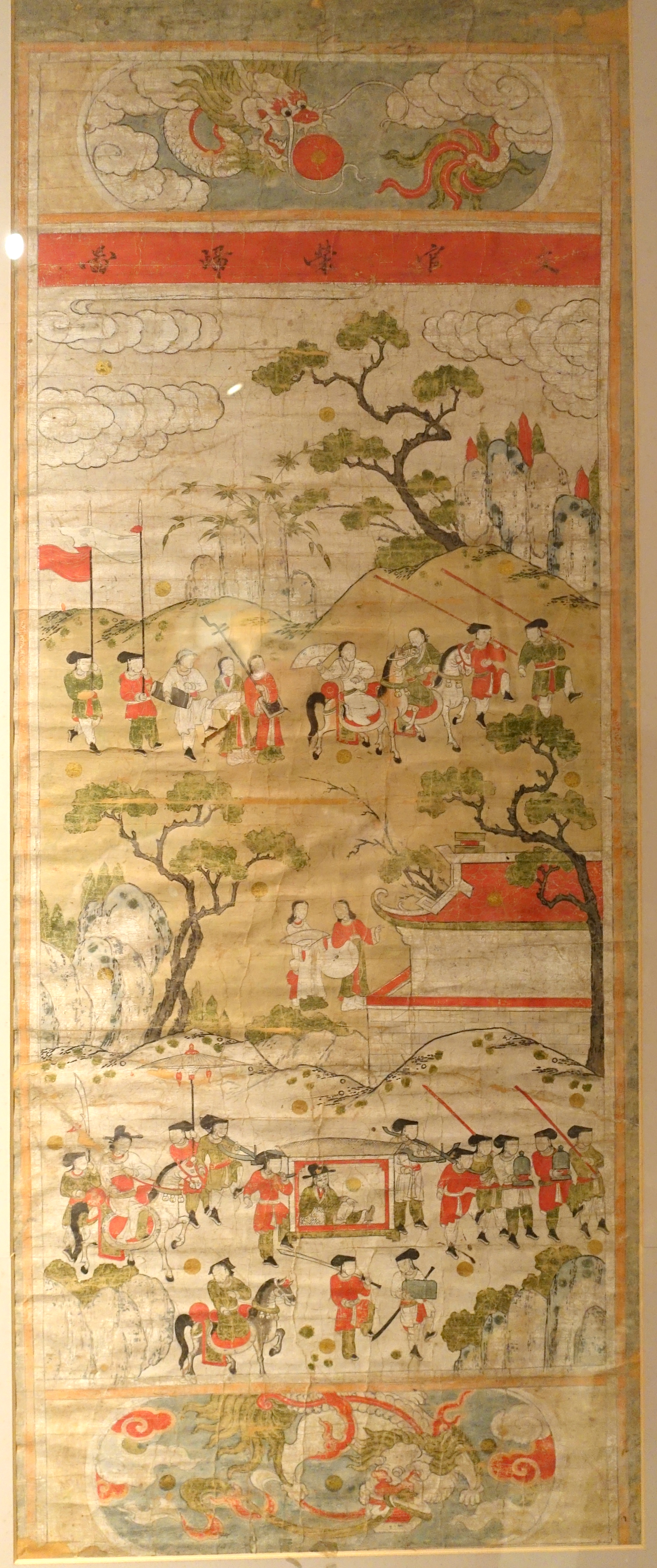 Exhibit in the Vietnam National Museum of Fine Arts - Hanoi, Vietnam. This artwork is old enough so that it is in the public domain.